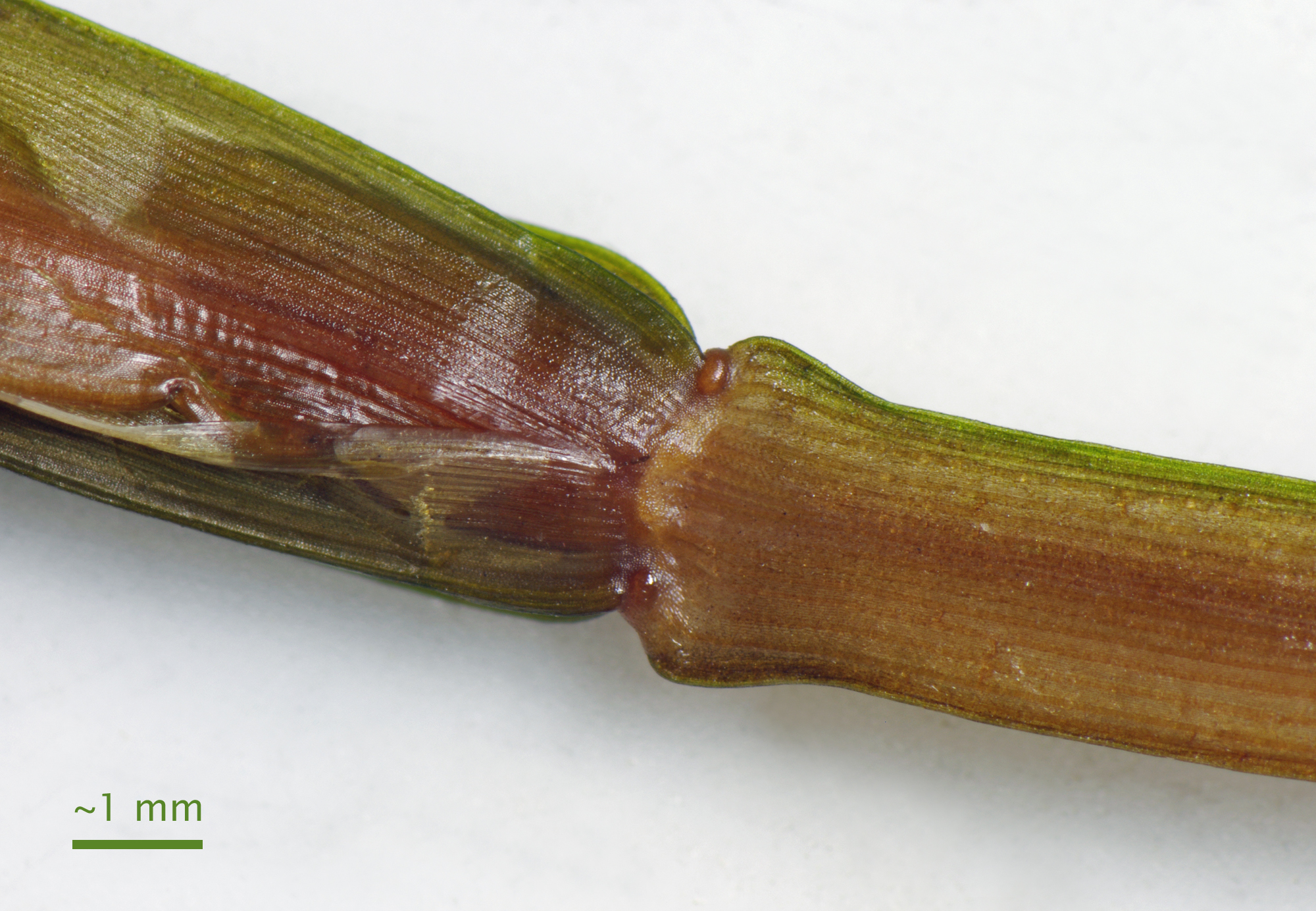 Close-up of a detail of the Sharp-leaved Pondweed (Potamogeton acutifolius). The two "knobs" (middle) are a crucial feature for the distinction from the similar species Potamogeton compressus. (Magnification ratio of the 1:1 macro lens has been doubled by a 2×TC.)